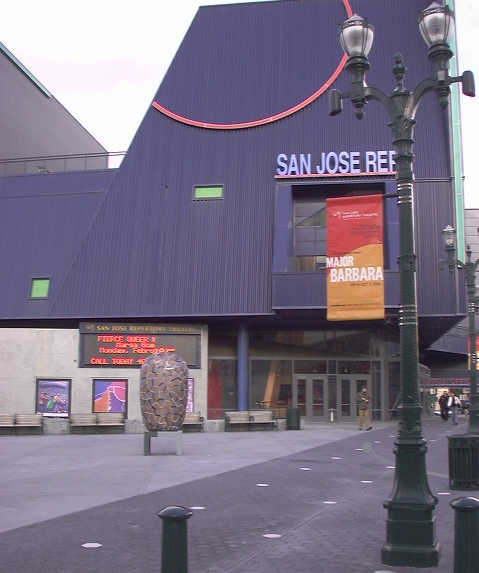 San Jose Repertory Theatre Susan and Phil Hammer Theatre Center-The Rep's theatre, with signs promoting its production of Major Barbara by George Bernard Shaw.